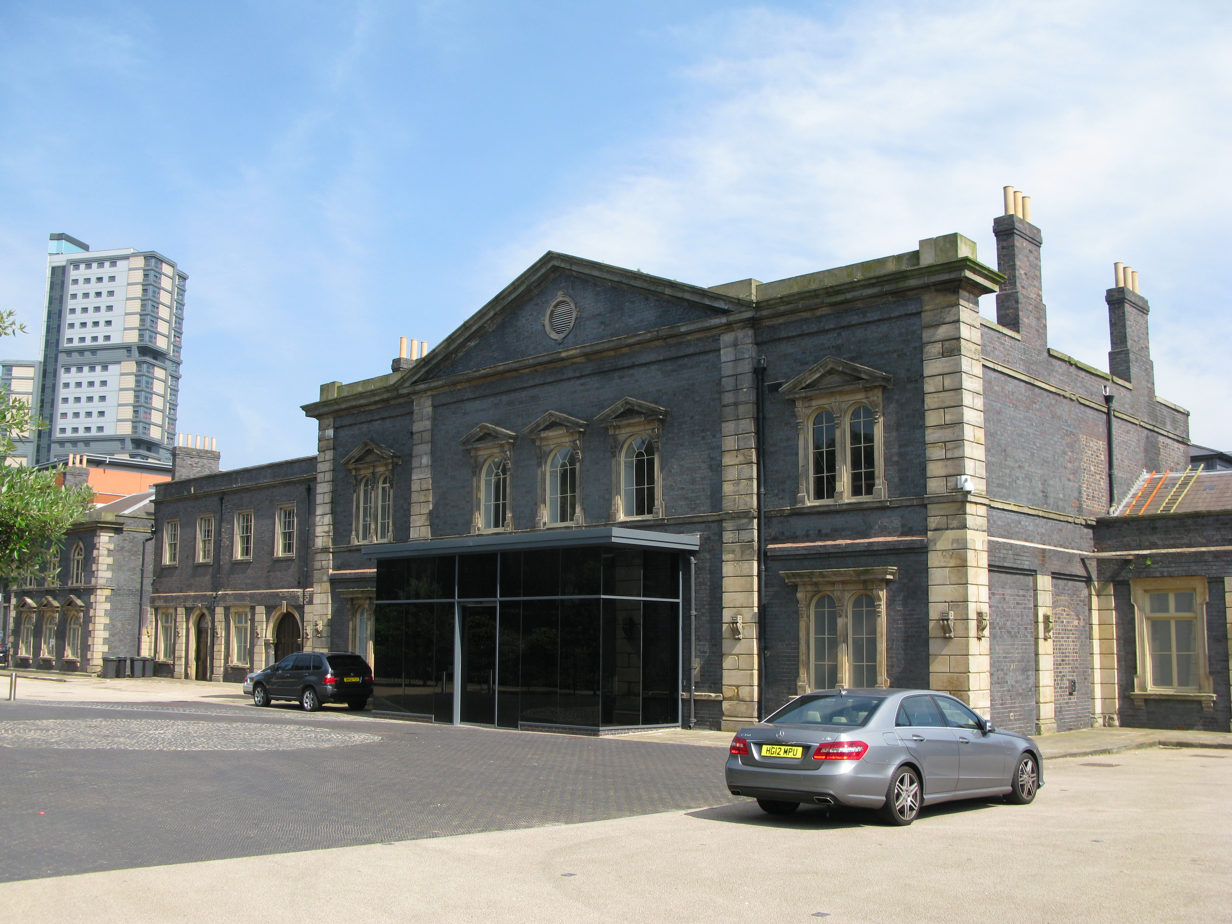 Grade II